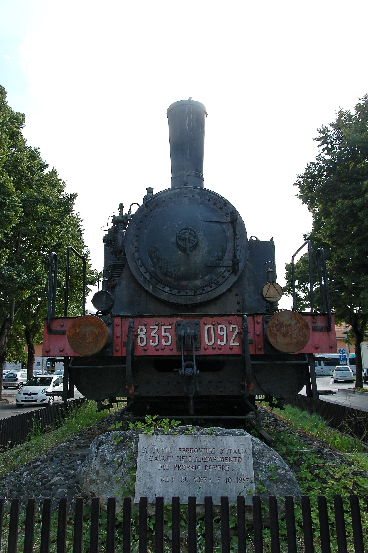 Sulmona train station 2011